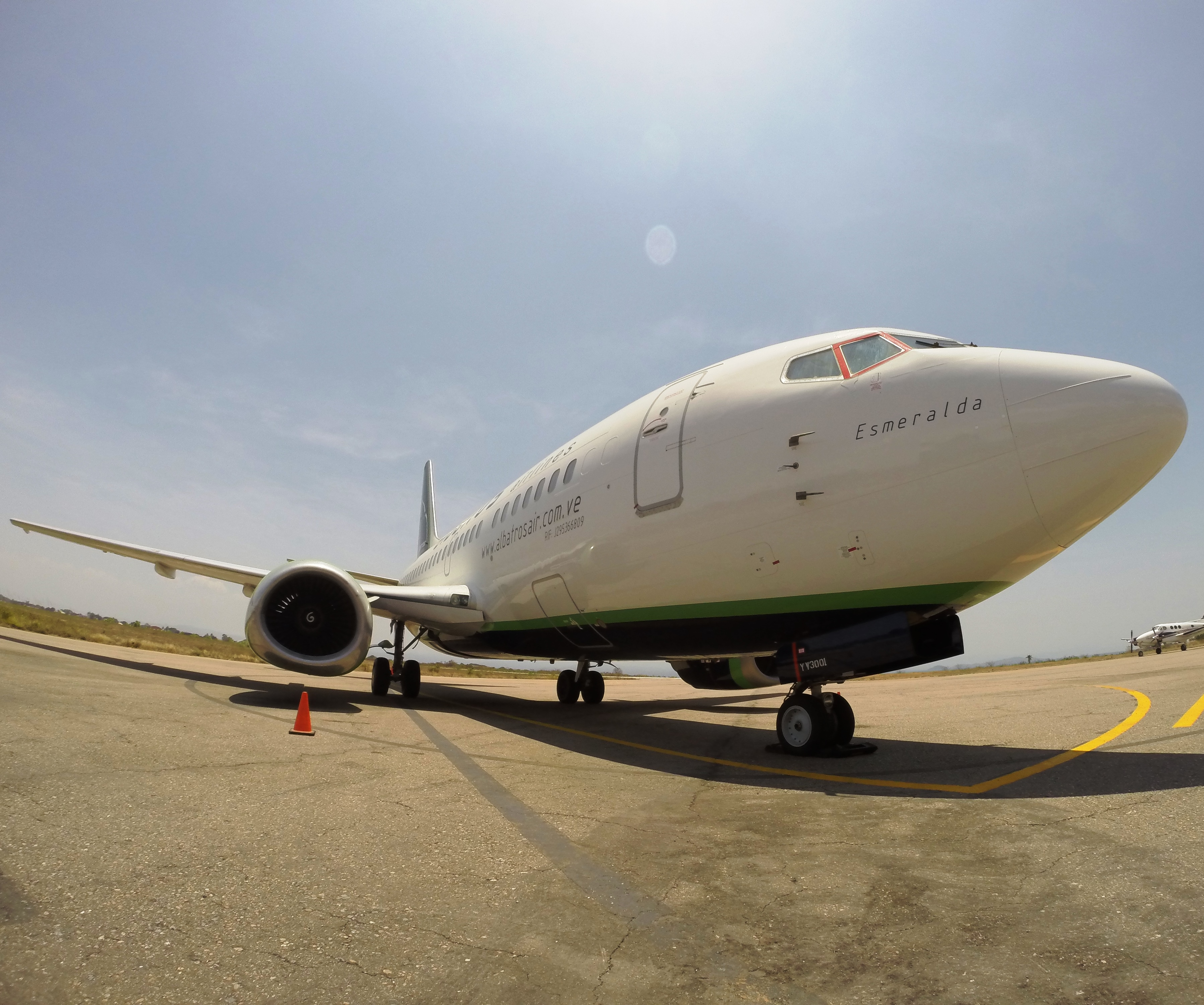 Boeing 737-500 Albatros Airlines Venezuela